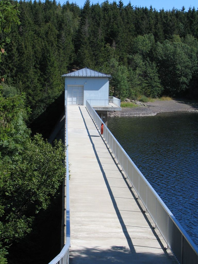 Crest of the Zillierbach Dam with its walkway and valve house. Harz mountains, Germany.